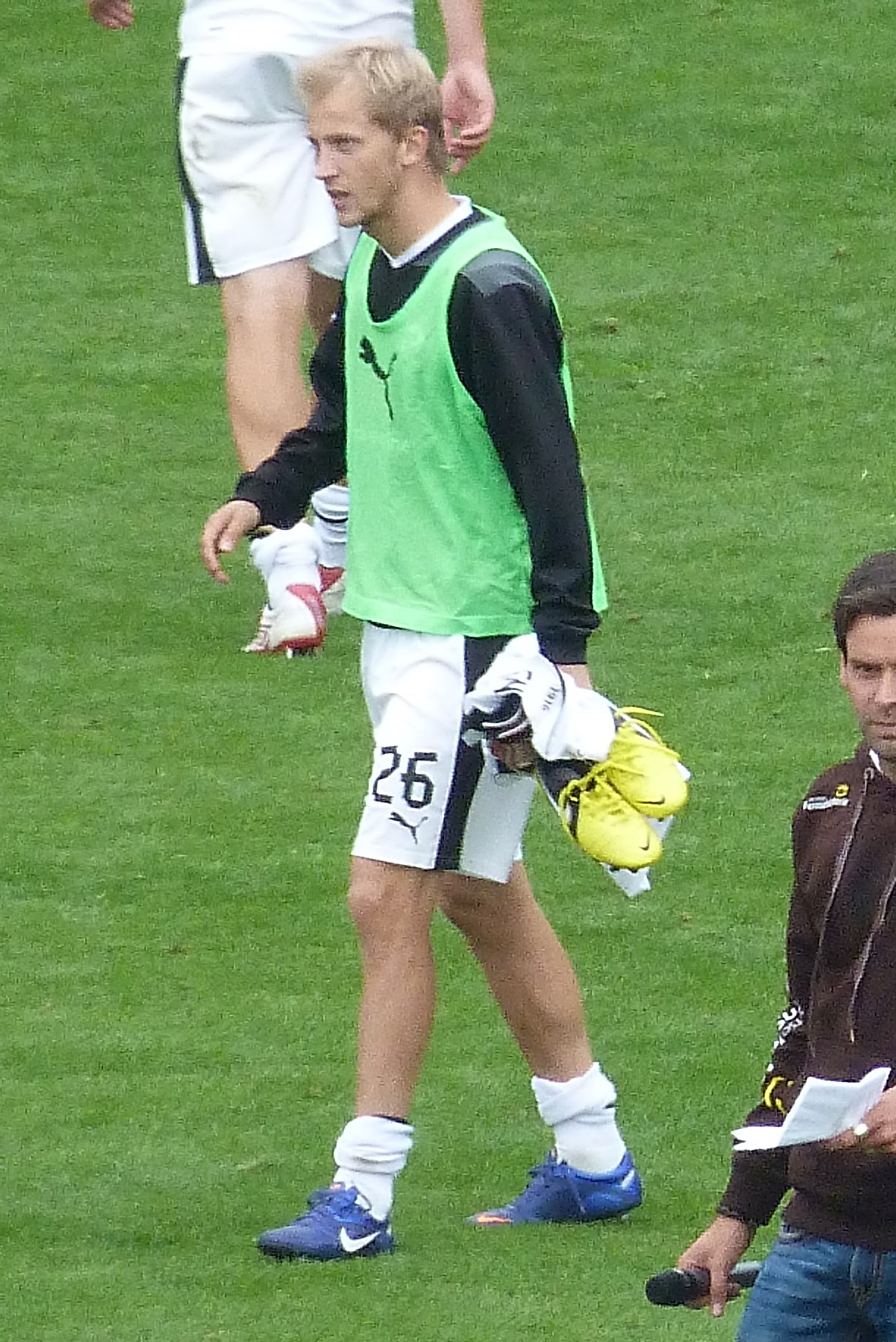 Kim Falkenberg as Player from The SV Sandhausen